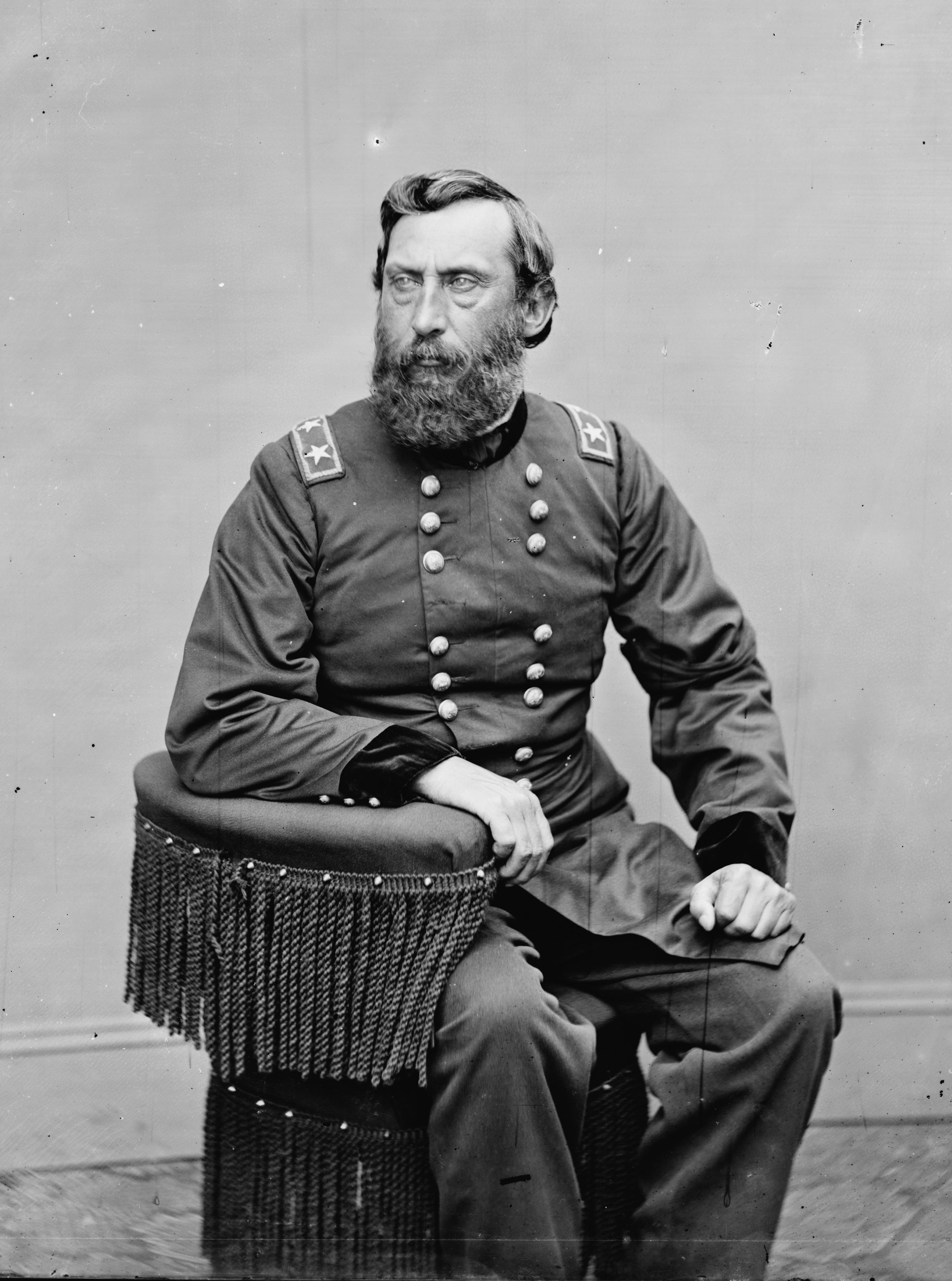 Henry Jackson Hunt. Library of Congress description: "Gen. H.J. Hunt, U.S.A."